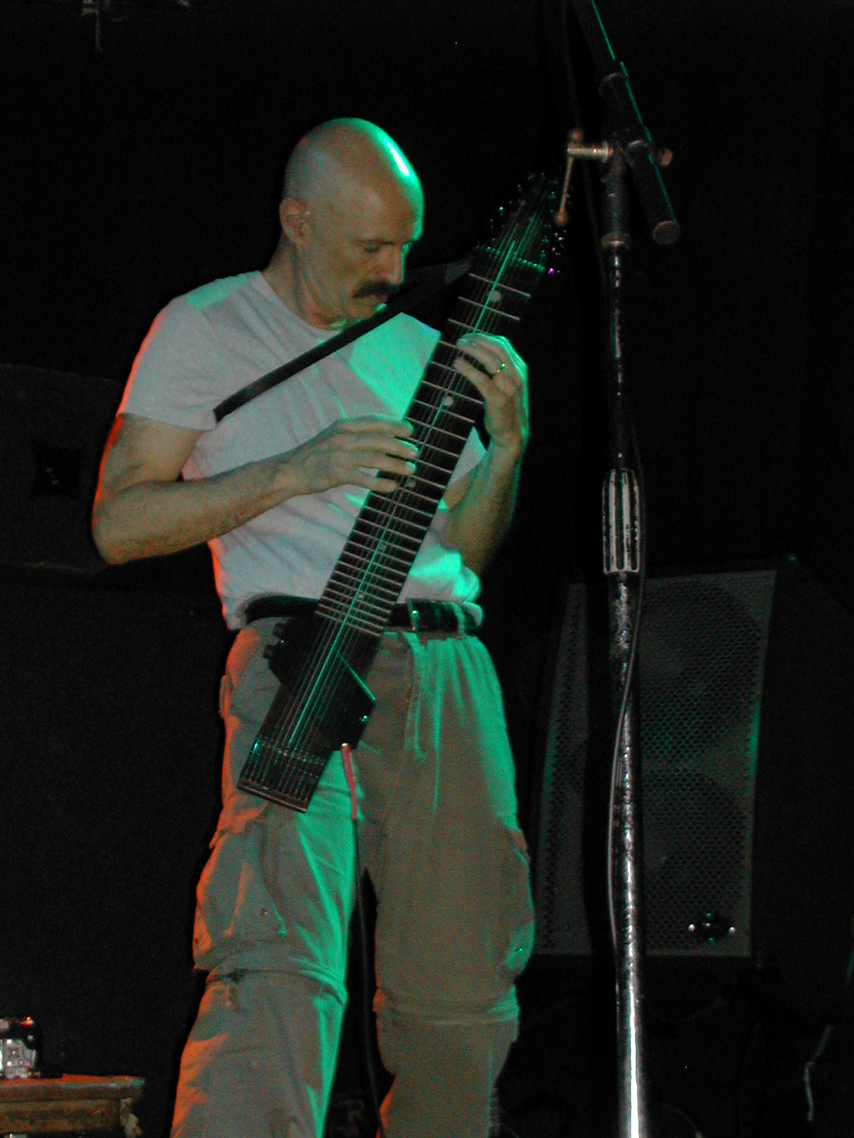 Tony Levin playing the Chapman Stick live at Toad's Place, New Haven, CT